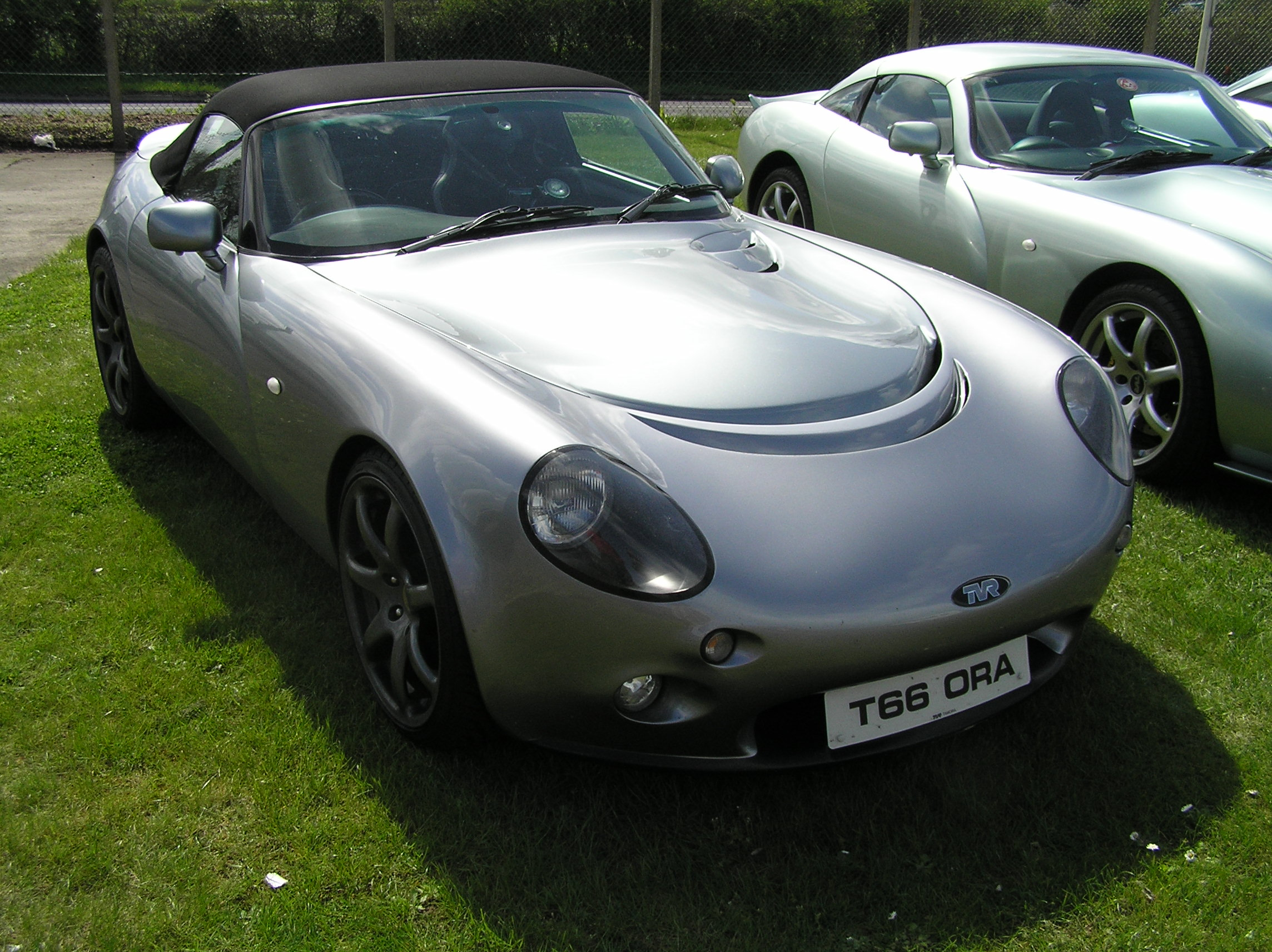 2005 TVR Tamora convertible at the Haynes Museum TVR Day User:Abarthaddict